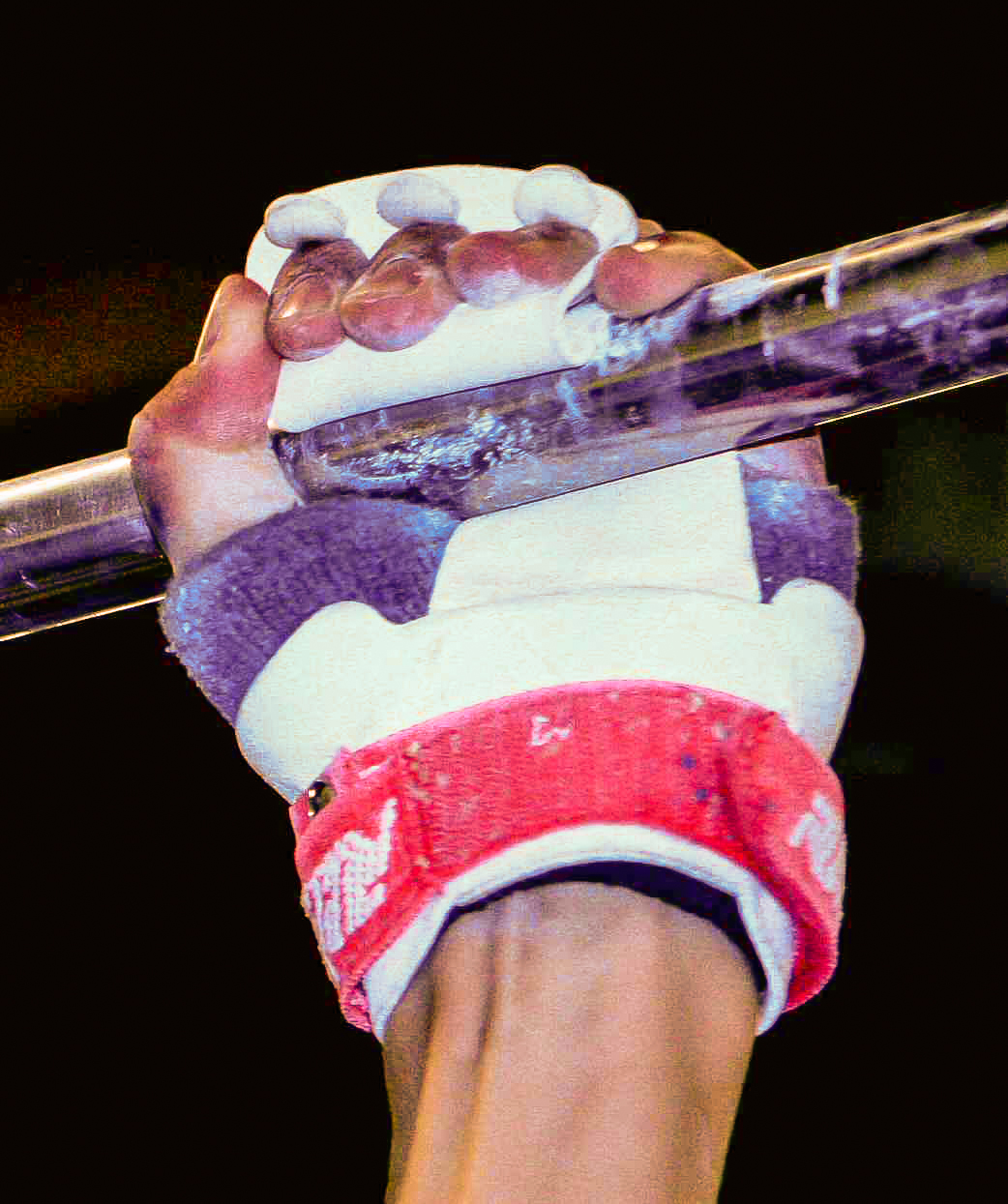 A bar grip.